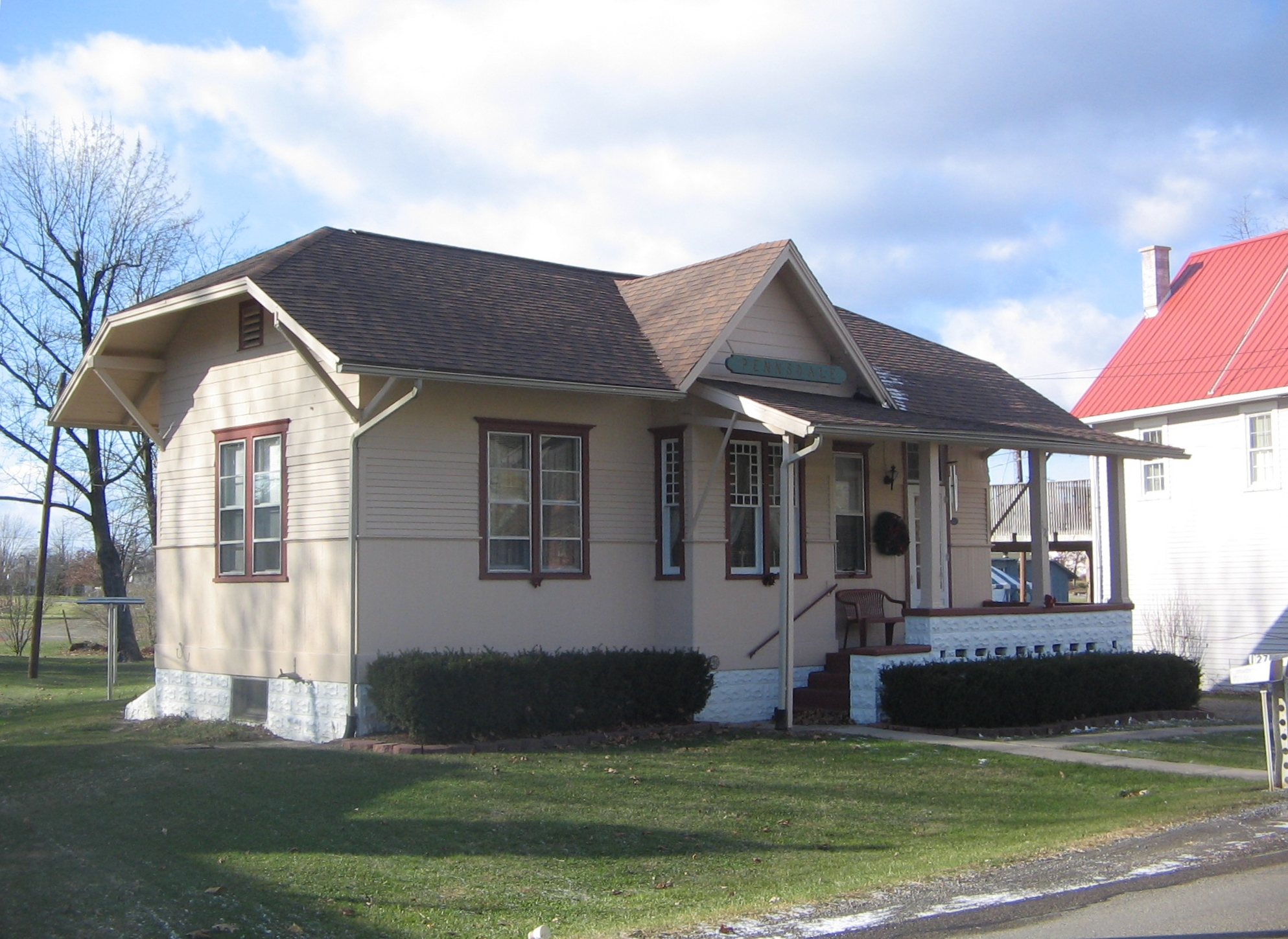 The former Williamsport and North Branch Railroad depot in the village of Pennsdale, Muncy Township, Lycoming County, Pennsylvania, USA